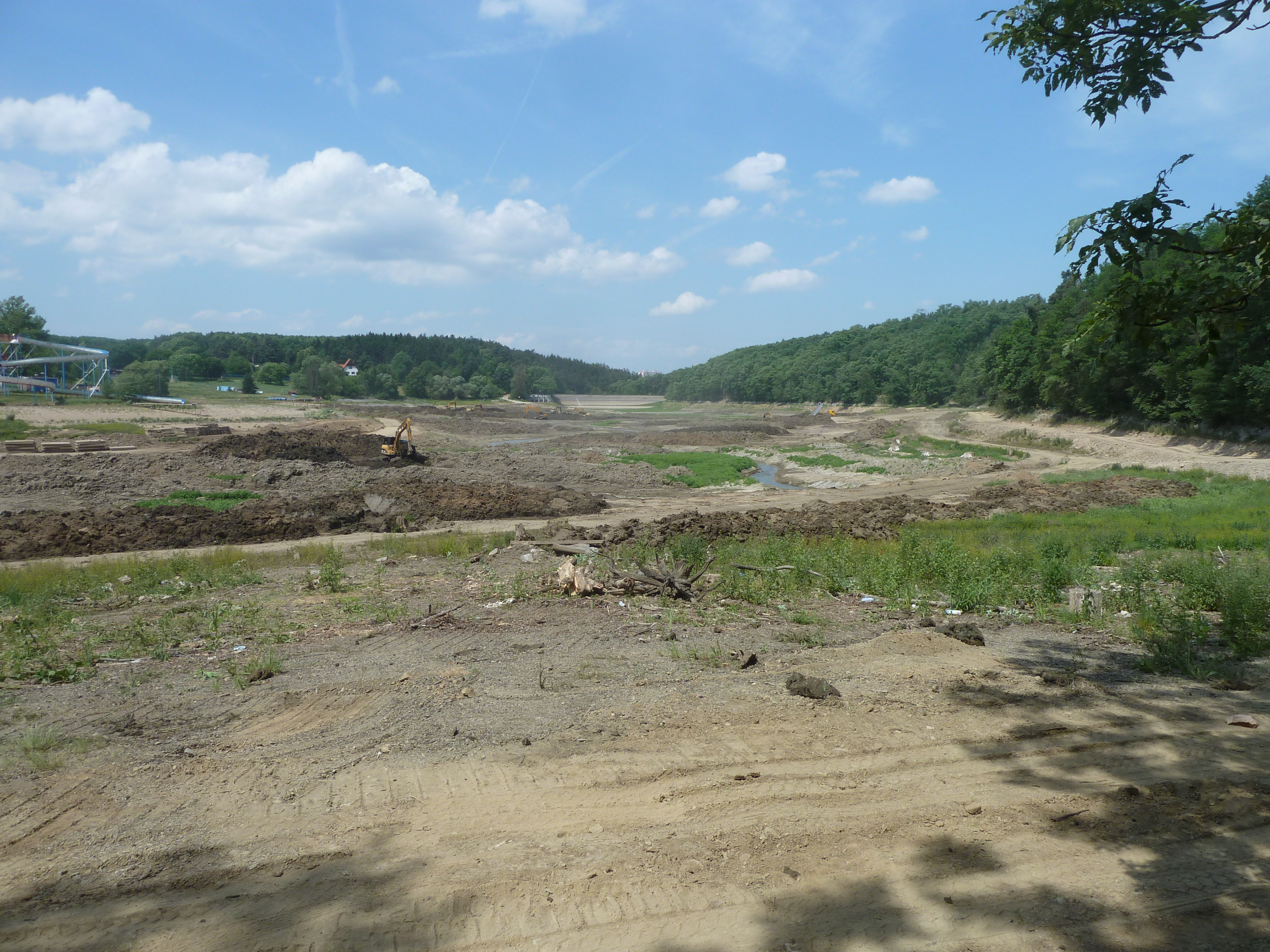 Removing mud from the Hostivař reservoir, view from the road.